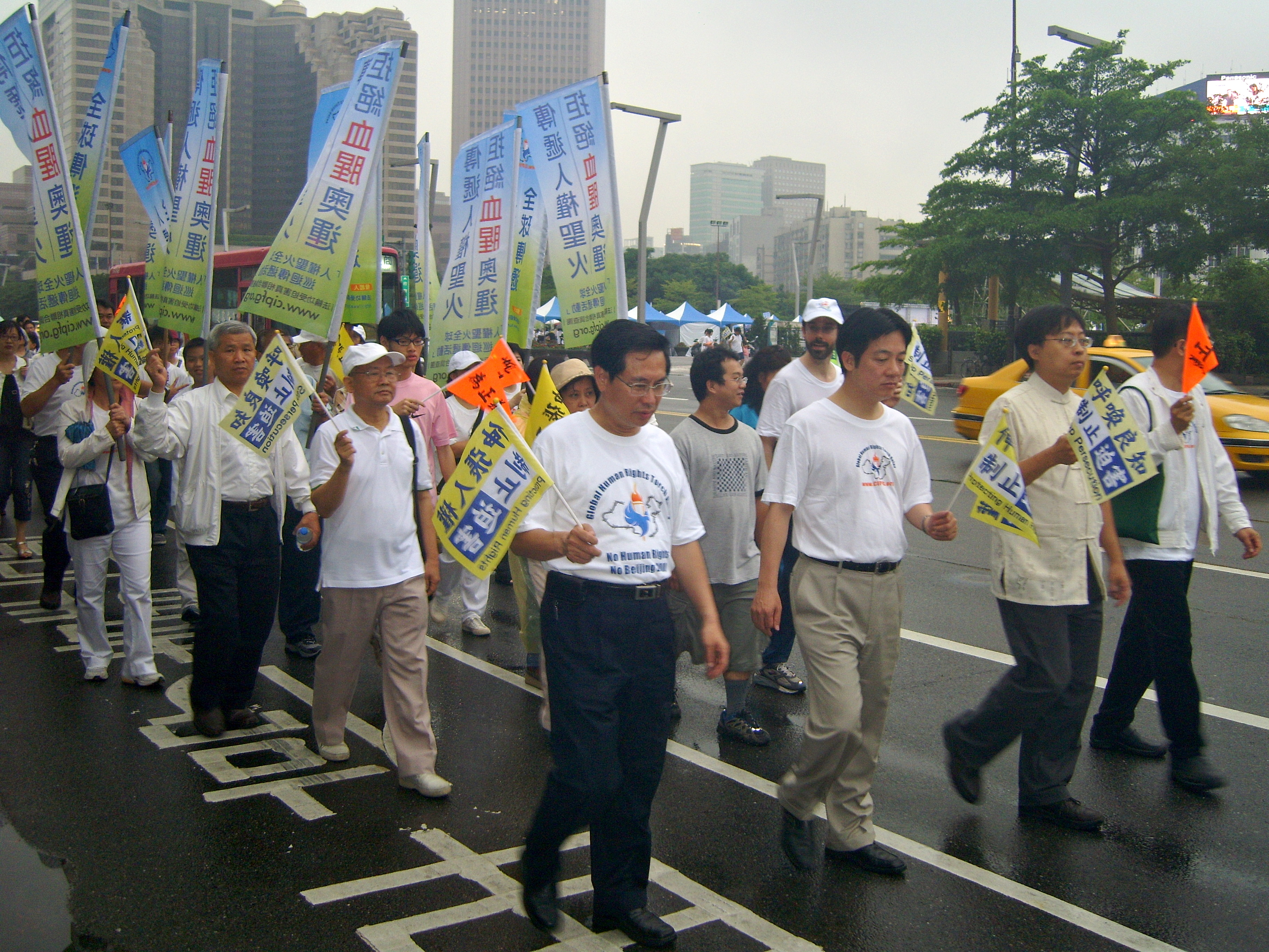 2008 Global Human Rights Torch Relay in Taiwan: Taipei City Stage.